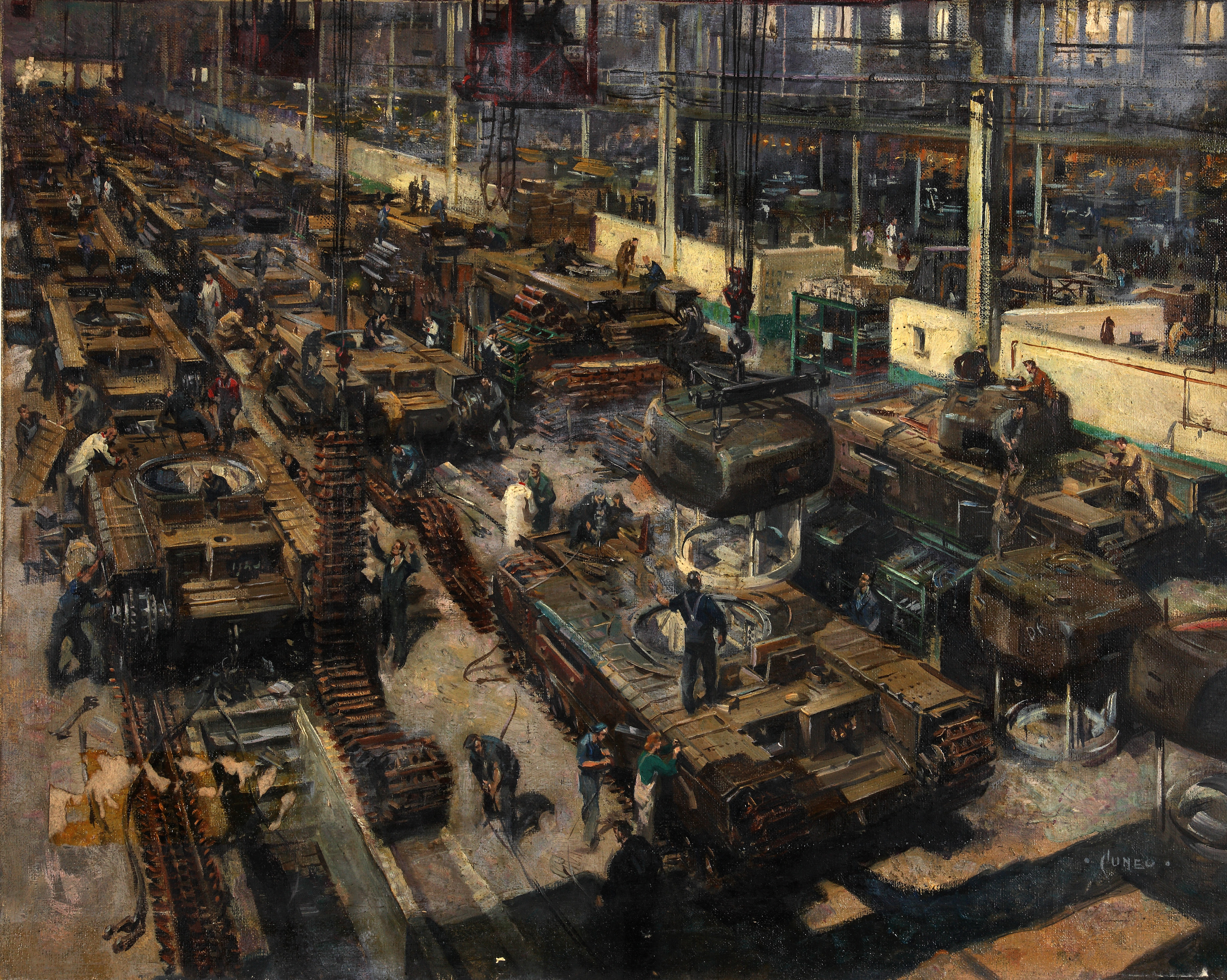 Workers manufacture Churchill tanks on a factory production line